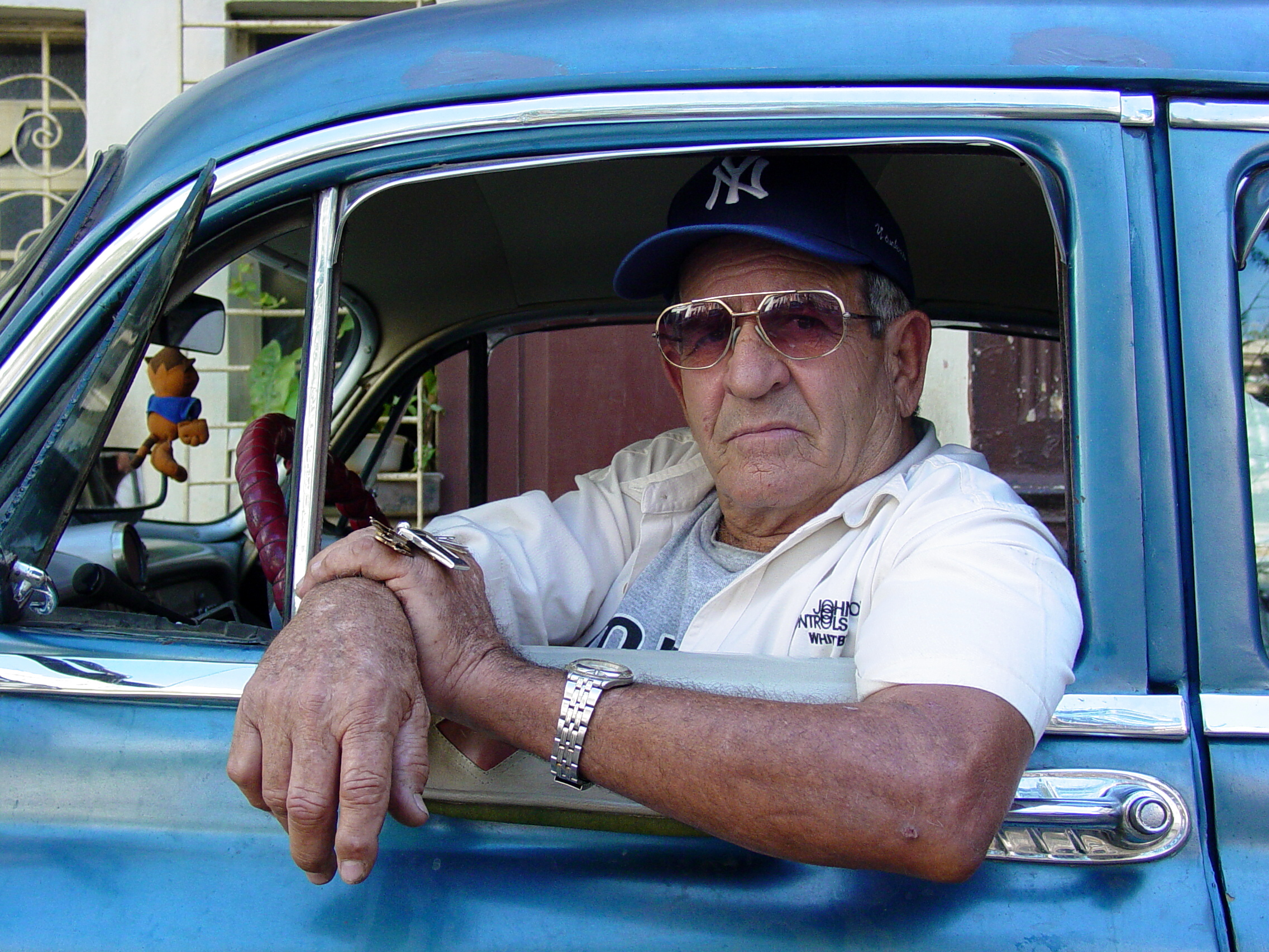 Taxi driver in classic car, Habana Vieja, Havana, Cuba. December 2006.